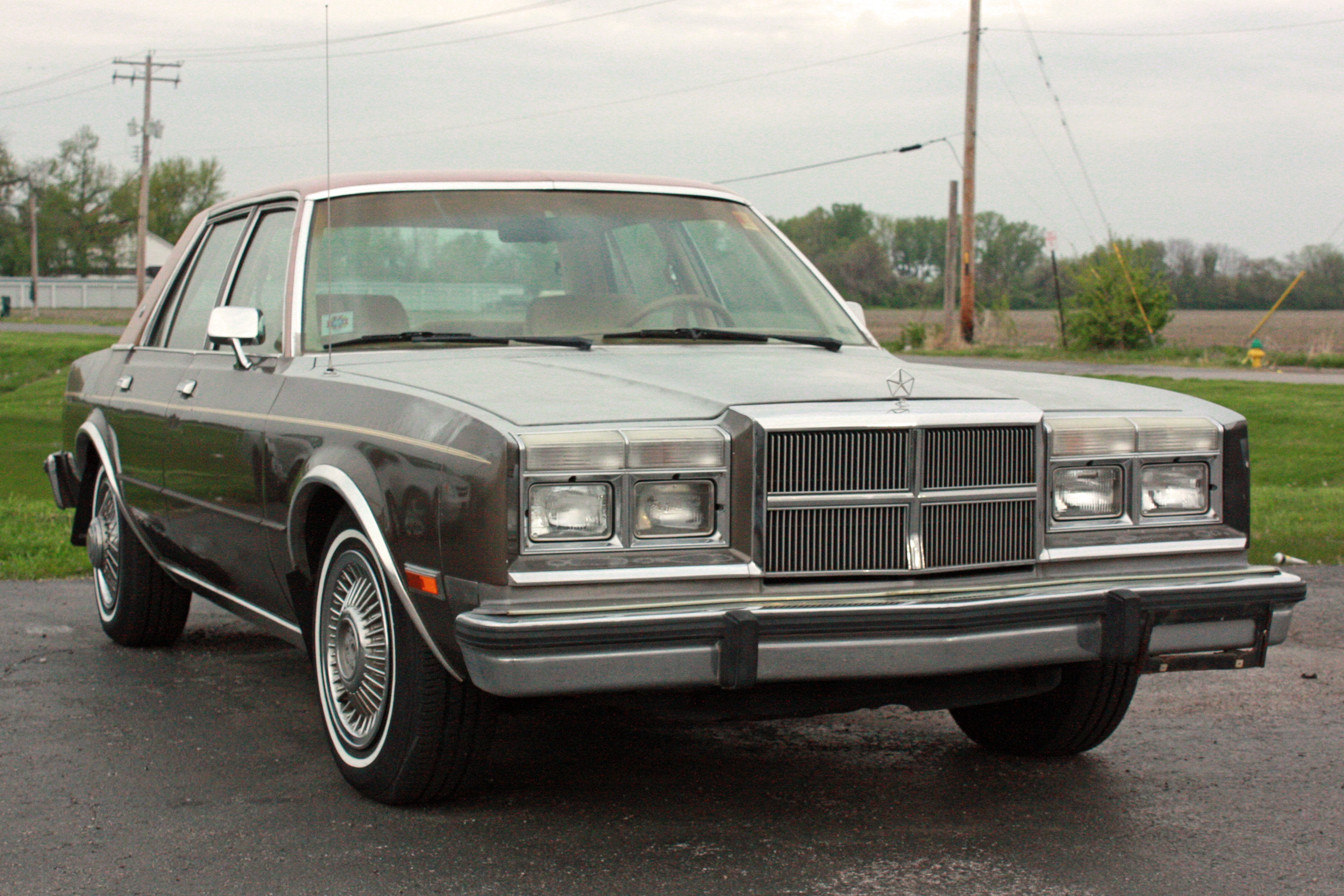 A Dodge Diplomat with a Chrysler Fifth Avenue front end photographed in Granite City, Illinois